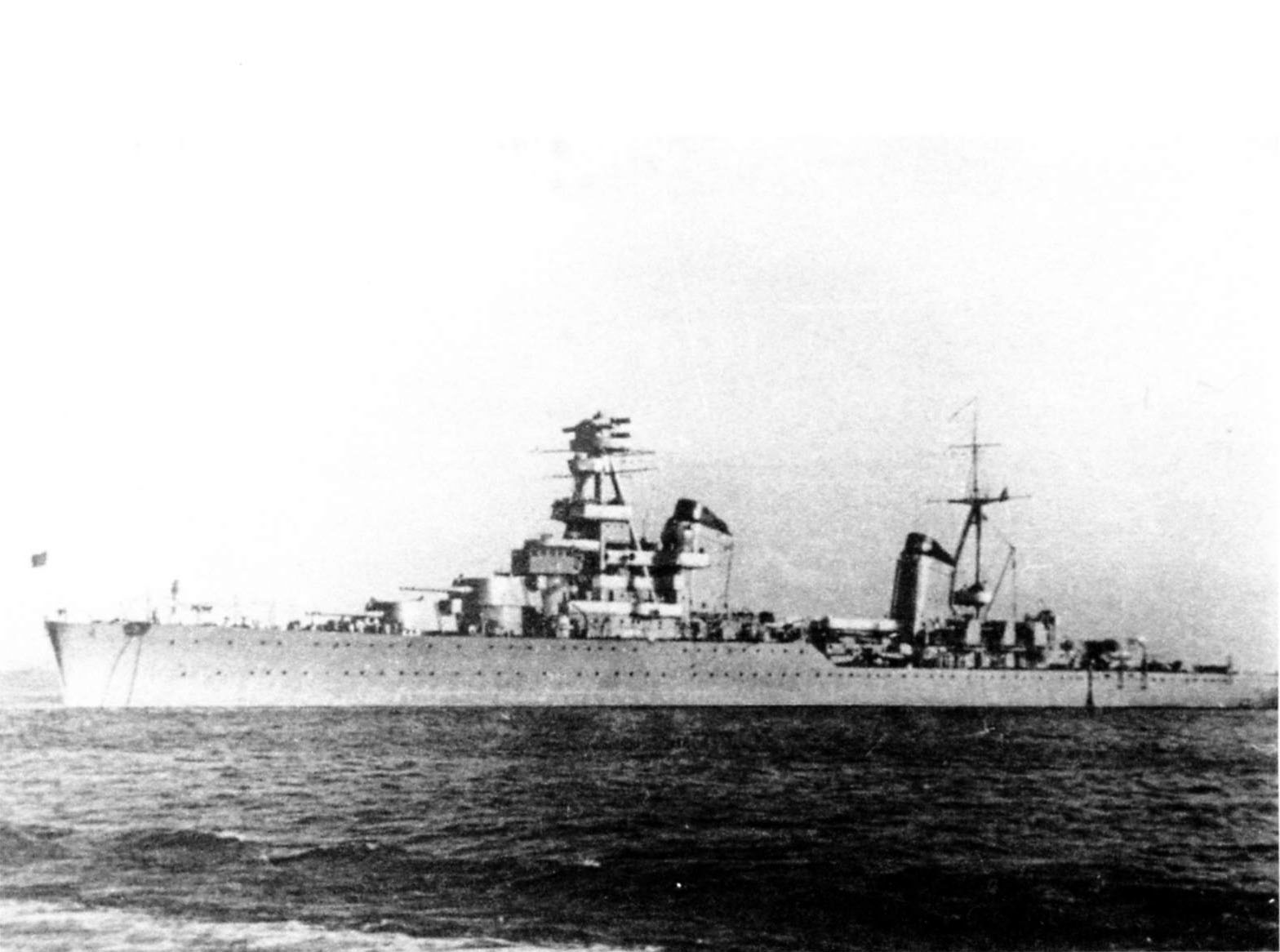 The Soviet cruiser Kirov, 1940-1941.